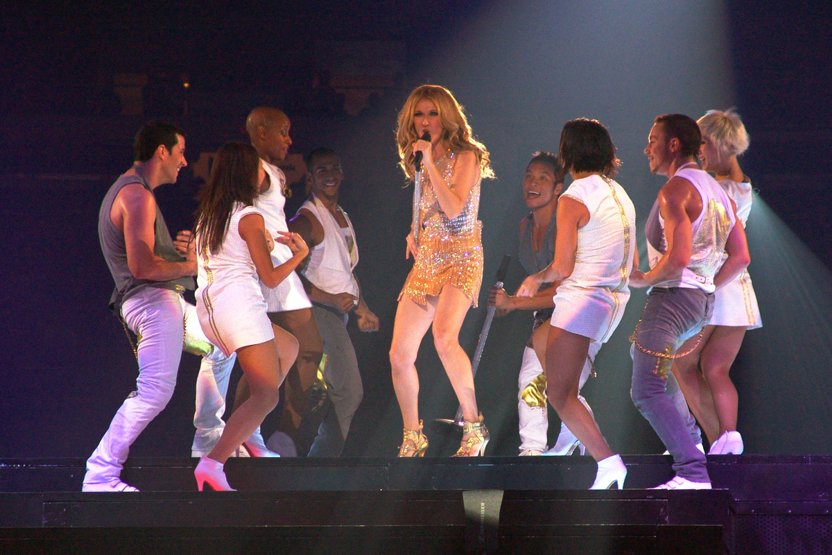 Celine Dion on stage with her dancers on the "Taking Chances World Tour" in September 2008 at the Nassau Veterans Memorial Coliseum in Uniondale, NY on Long Island.